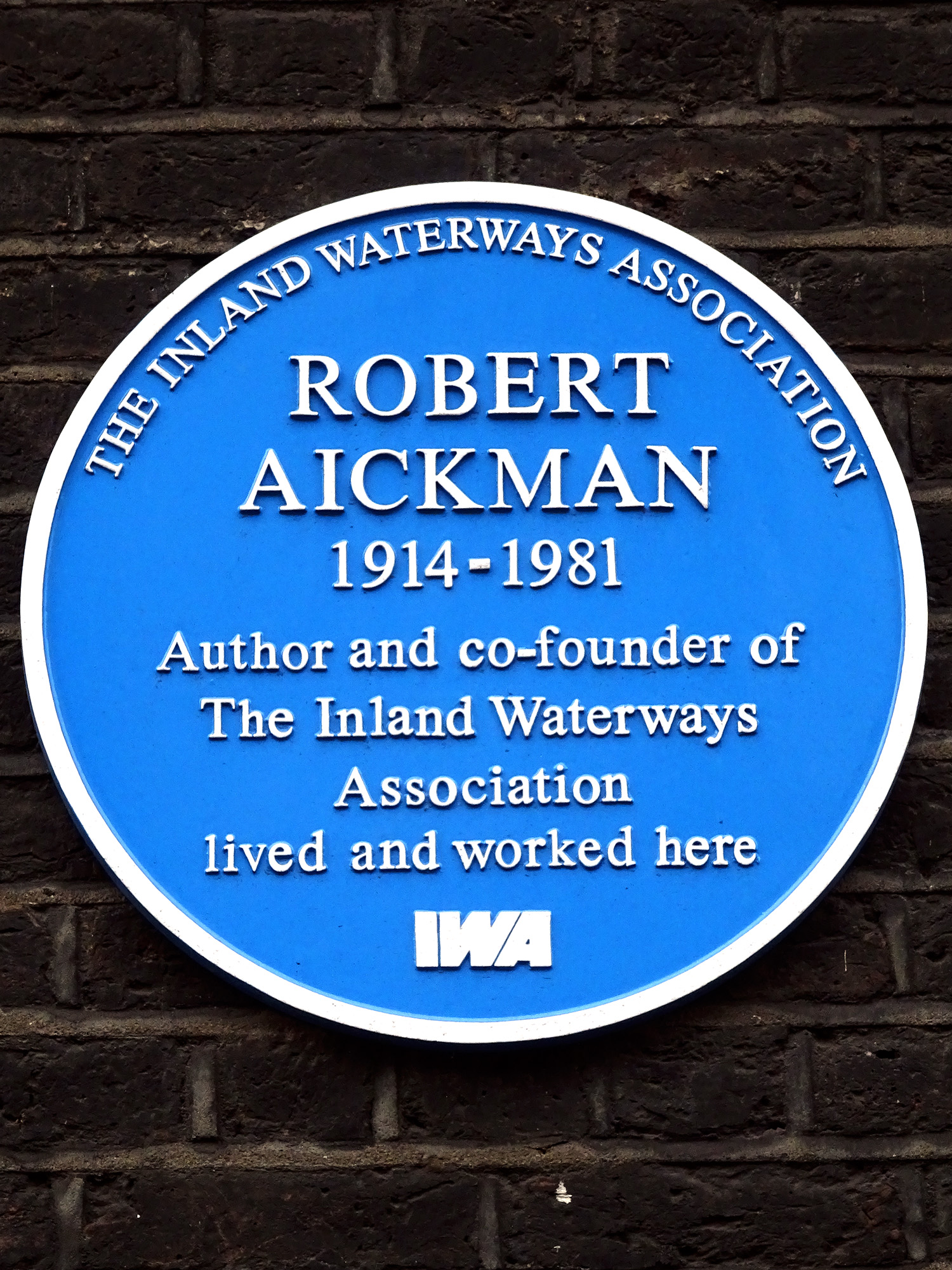 Blue plaque erected by Inland Waterways Association on 11th September 2015